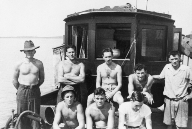 AWM Caption: A GROUP ON BOARD MV KRAIT EN ROUTE TO THE SINGAPORE AREA DURING OPERATION JAYWICK. LEFT TO RIGHT: FRONT ROW A. B. HUSTON, A. B. MARSH, CPL. CRILLY; BACK ROW, UNIDENTIFIED, LEADING SEAMAN CAIN, MAJOR LYON, LIEUTENANT CARSE, LEADING STOKER MCDOWELL. OPERATION JAYWICK WAS CONDUCTED FROM 1943-09-01 TO 1943-10-19 AND INVOLVED A CLANDESTINE ATTACK BY A GROUP OF SIX ALLIED OPERATIVES AGAINST JAPANESE SHIPPING AT SINGAPORE. (PREFER BETTER IMAGE AT P0986/02/01)